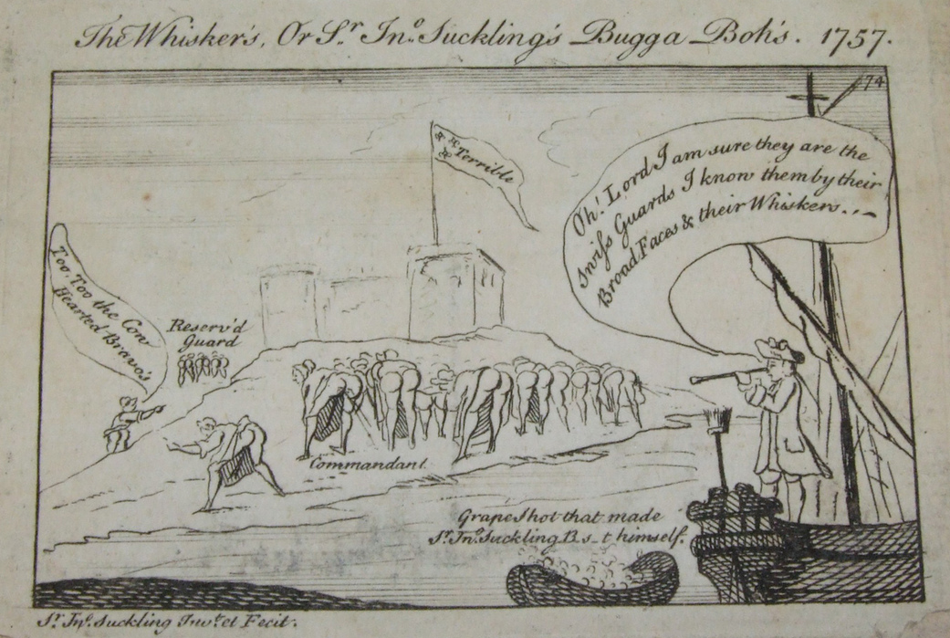 The Whisker's. Or Sr Jn Suckling's Bugga Boh's 1757 (caricature) A cartoon ridiculing Sir John Mordaunt at the Raid on Rochefort (or Descent on Rochefort) a British amphibious attempt to capture the French Atlantic port of Rochefort in September 1757 during the Seven Years' War. A thought balloon issues from the the mouth of Sir John Suckling which says, "Oh Lord. I am sure they are Swiss Guards. I know them from by their broad faces & their whiskers." On the shore a troop of women expose their posteriors to the ship.[1] Print Record Shot - Do not reproduce.